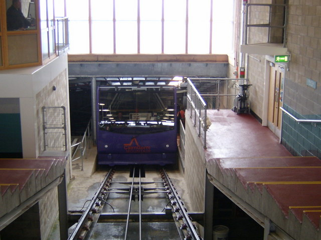 Funicular train approaching summit station at Ptarmigan.